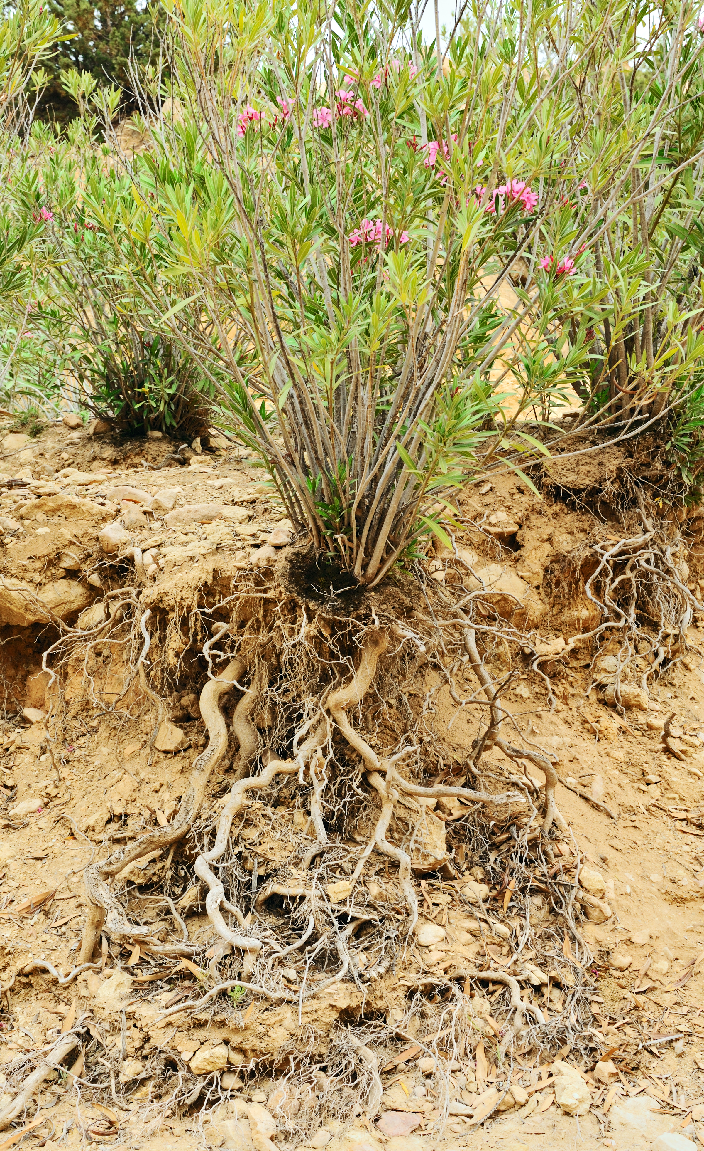 A native oleander shrub (Nerium oleander), with exposed root system, in Tunisia.